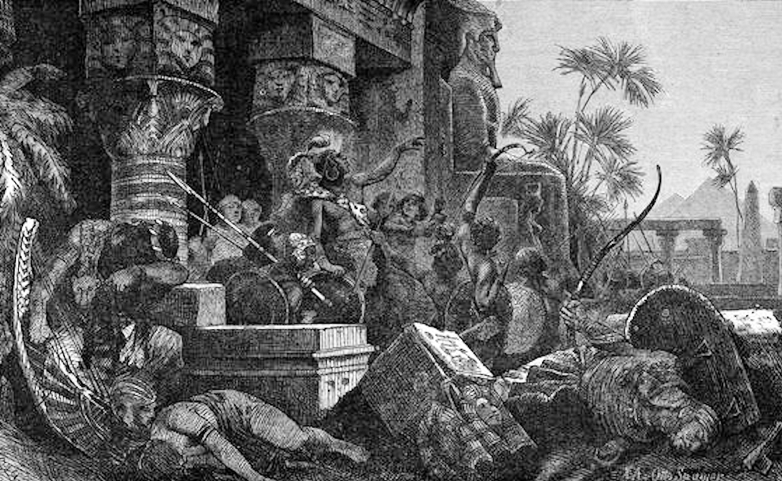 Einfall der Hyksos. The Hyksos invaders are depicted just after a victorious battle against the Egyptians.